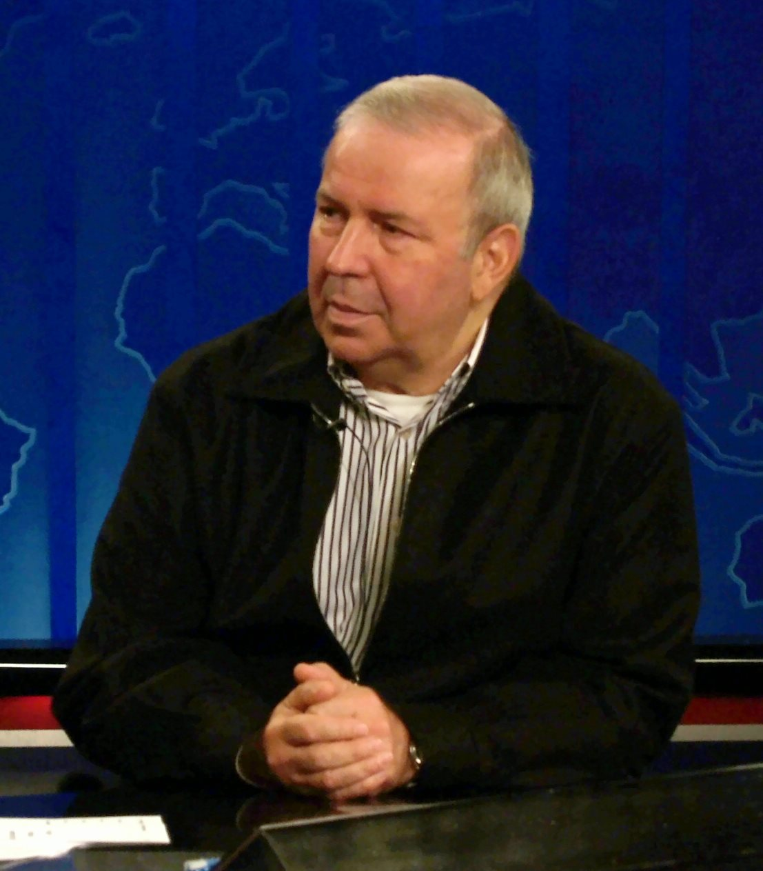 Frank Sinatra, Jr. in San Diego by Phil Konstantin